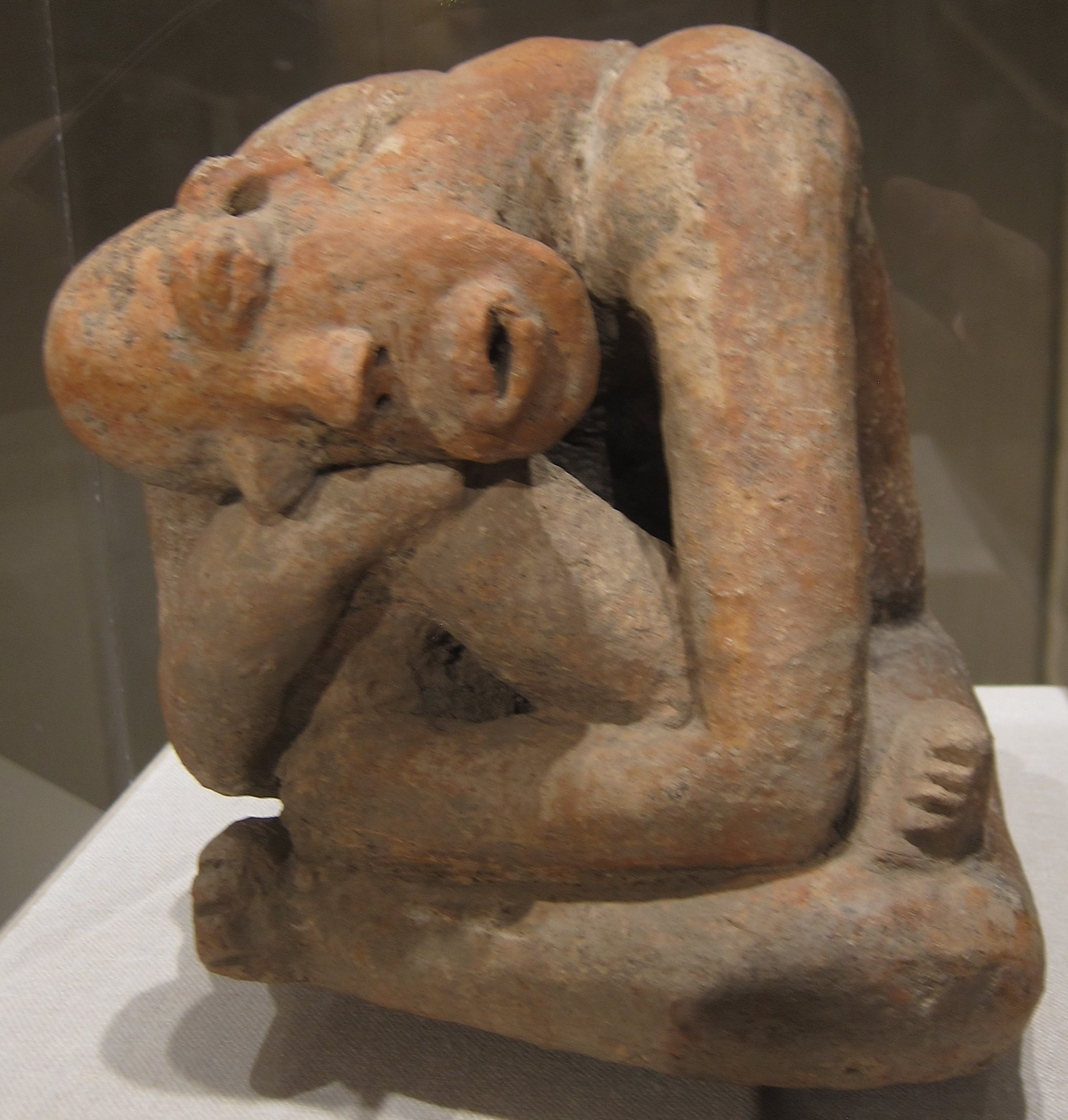 Seated figure grom Mali, Inland Niger Delta region, 13th century, Djenné peoples, Terracotta, 10 x 11 3/4in. (25.4 x 29.9cm), ceramics, Metropolitan Museum of Art, accession 1981.218